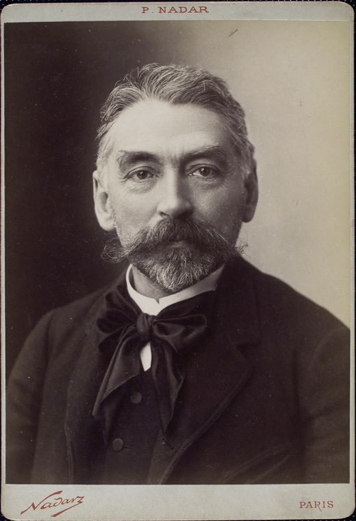 French writer Stephane Mallarme